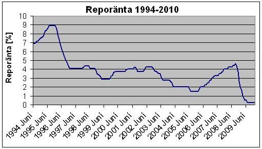 Monthly averaged interest rate set by the Swedish National bank. 1994-2010